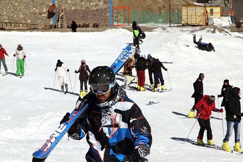 Shirbad Ski Resort in winter.